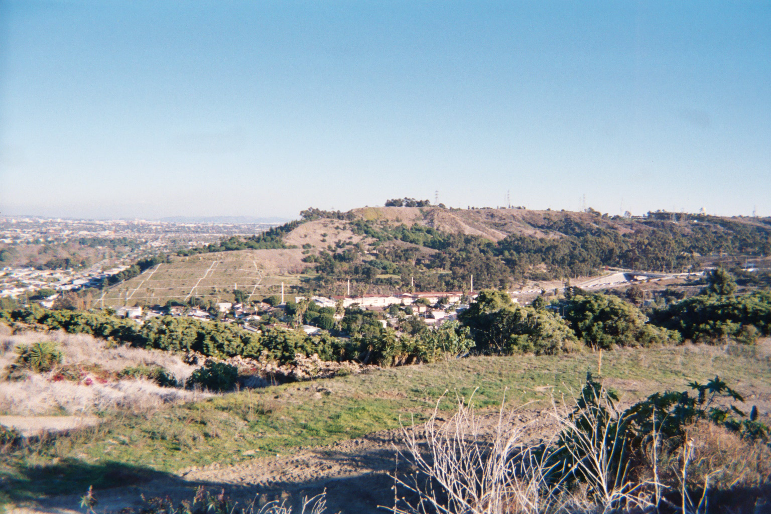 View east of the Baldwin Hills mountain range, in Los Angeles County, California. Showing the Baldwin Hills community, La Cienega Boulevard, and Kenneth Hahn State Recreation Area, as seen from the Baldwin Hills Scenic Overlook. Credits Taken December 2006 by Jengod.